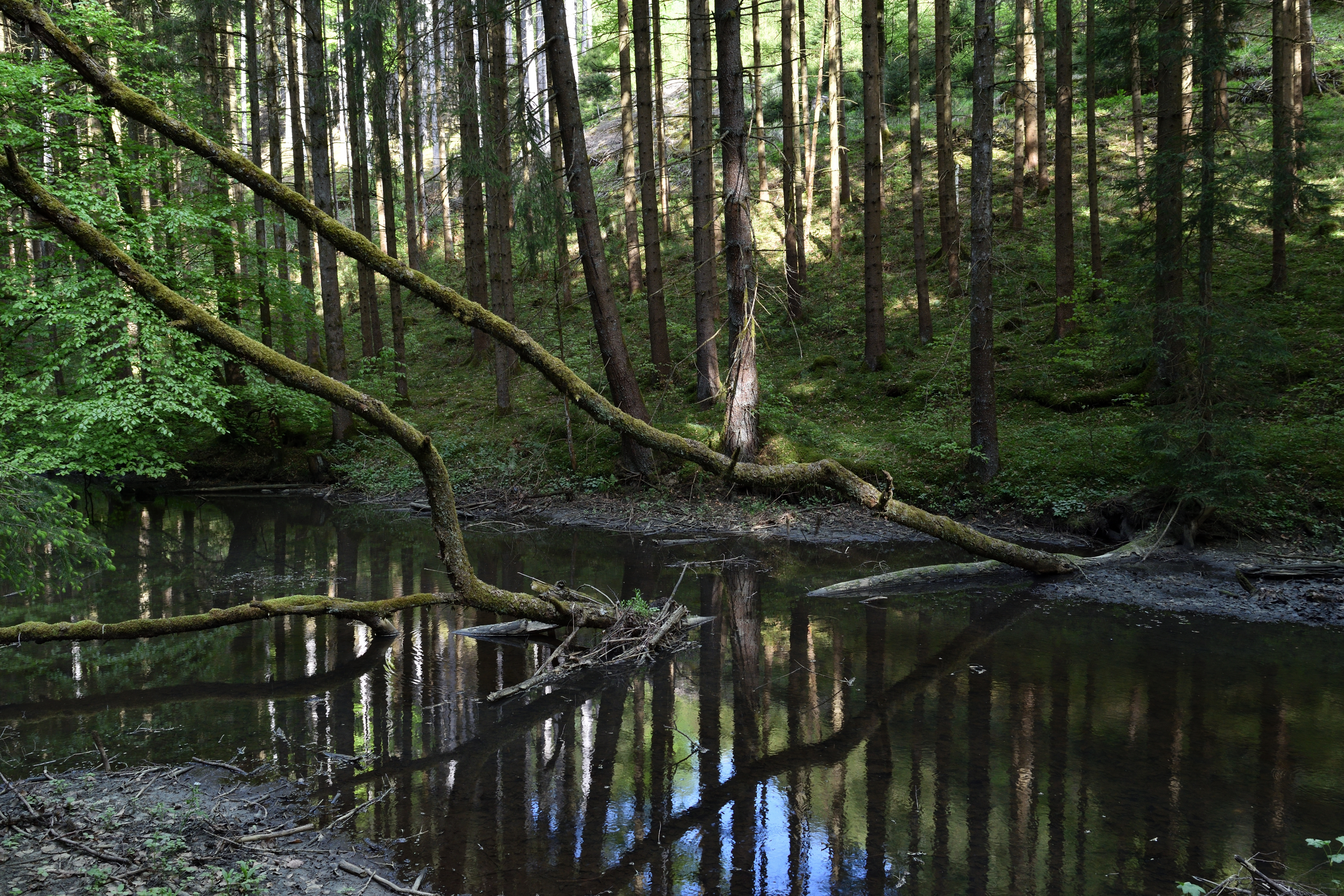 Gleißenbach nahe Deininger Weiher - April 2018 - LSG Südliches Gleißental